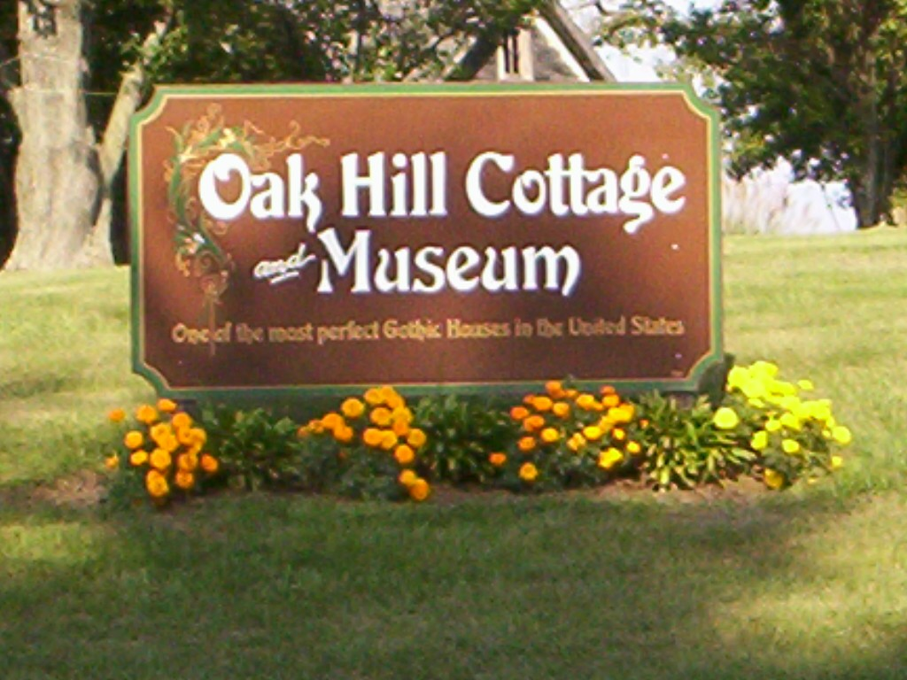 A view of the Oak Hill Cottage welcome sign in Mansfield, Ohio.